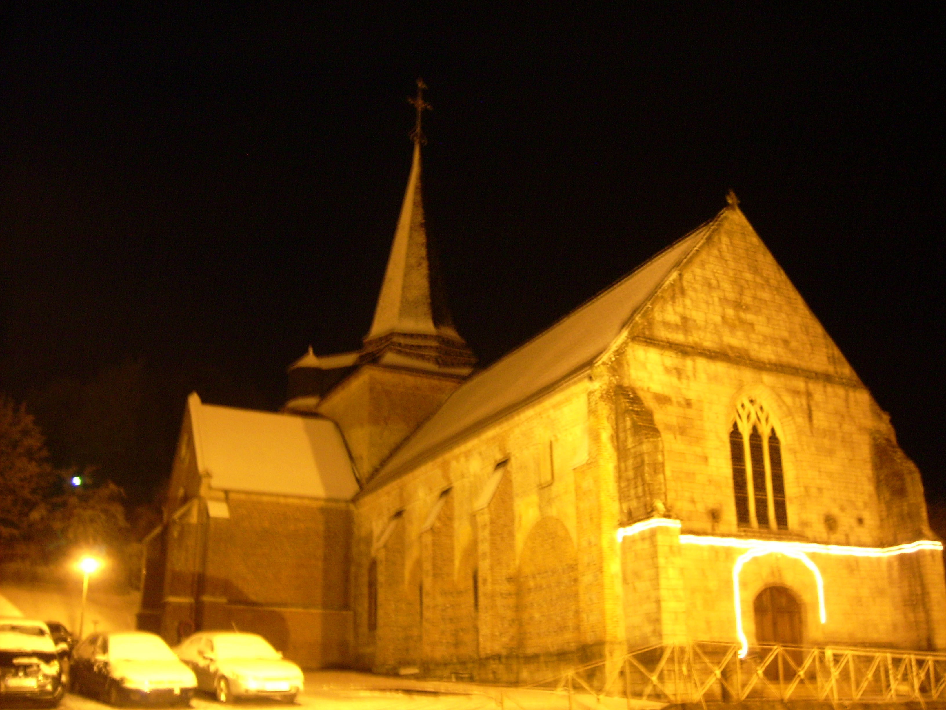 Longueville sur Scies Church